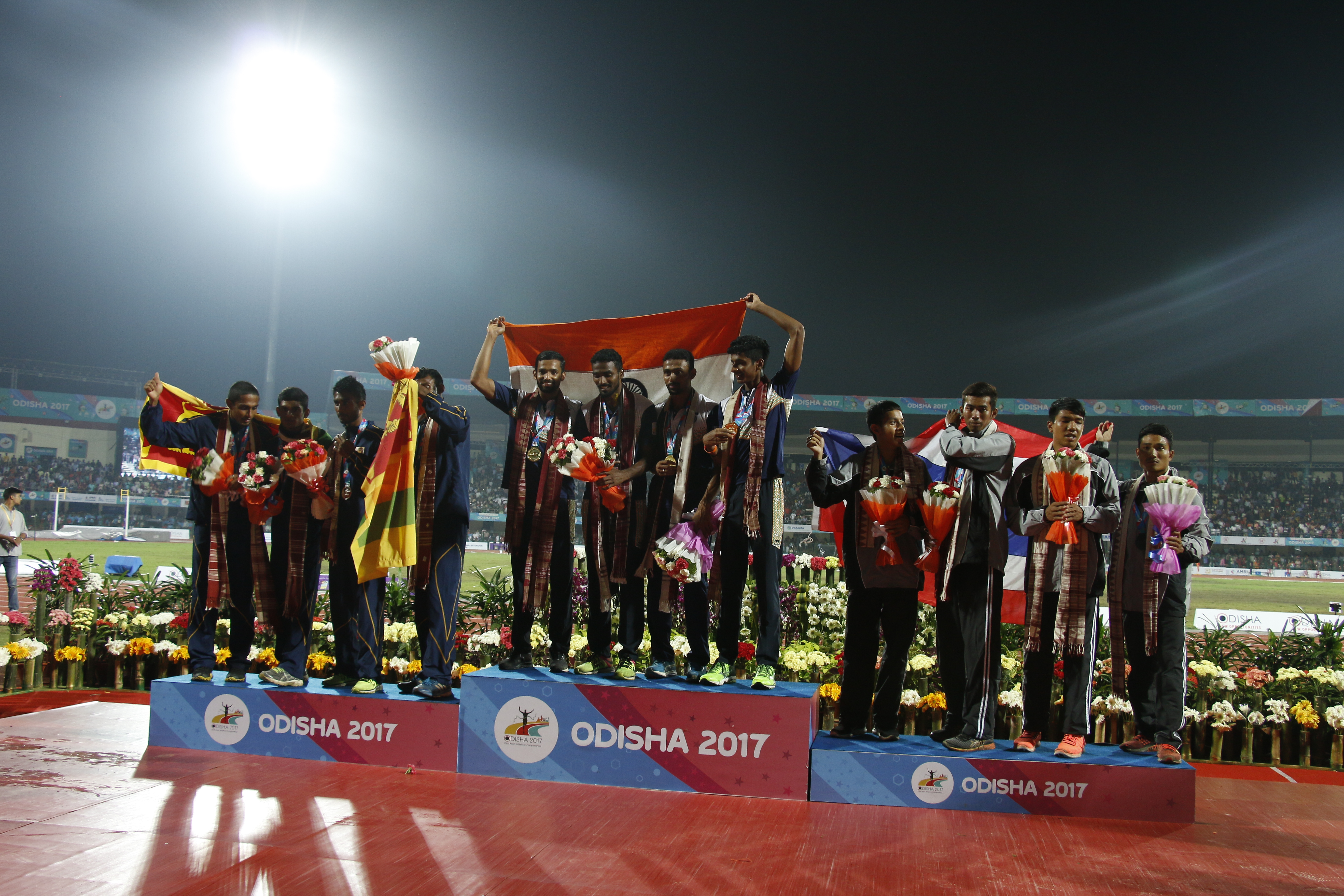 Athletes during 22nd Asian Athletics Championships in Bhubaneswar.